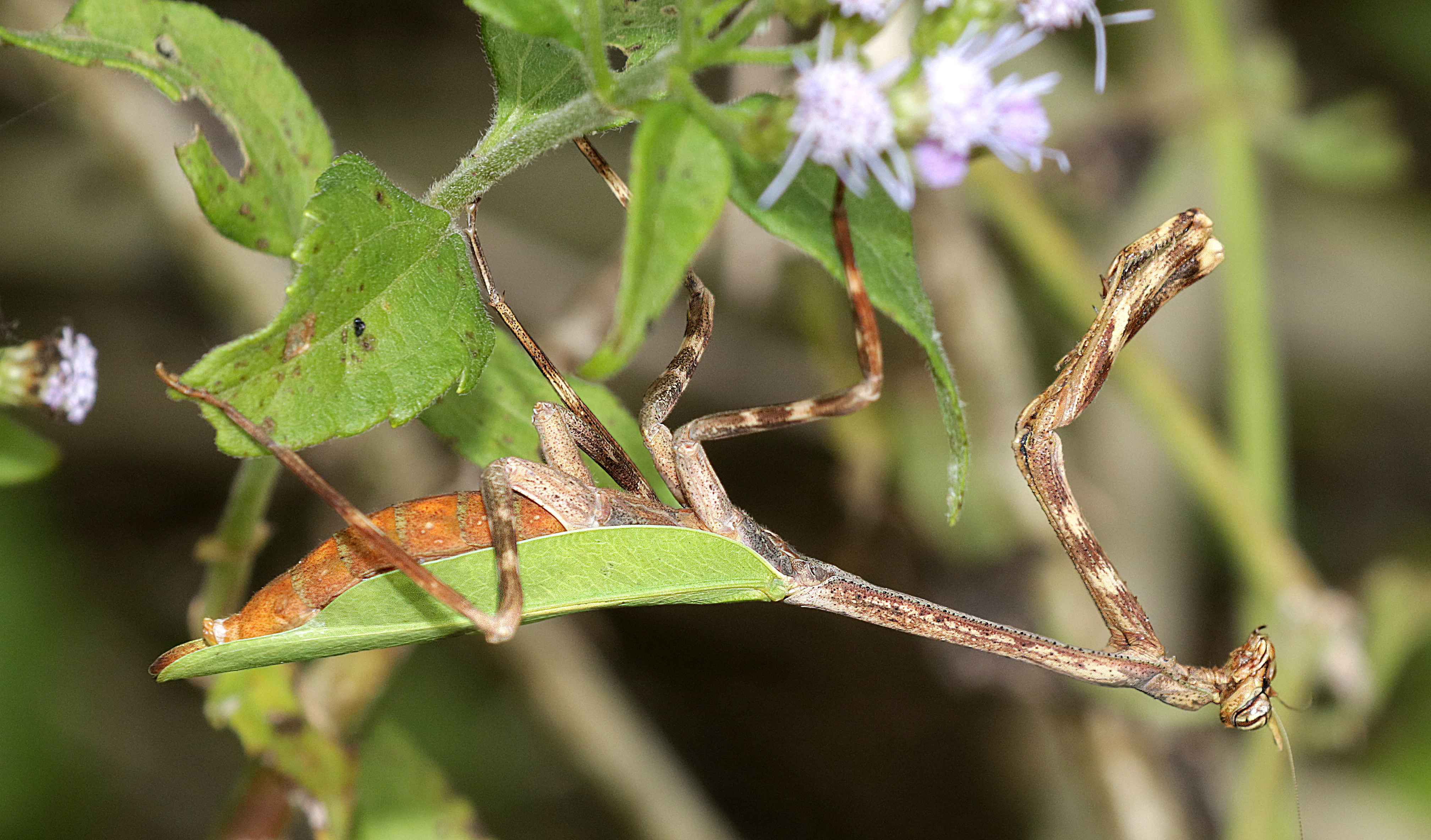 An easy life for this killing-machine in the National Butterfly Center gardens! Over inches long...